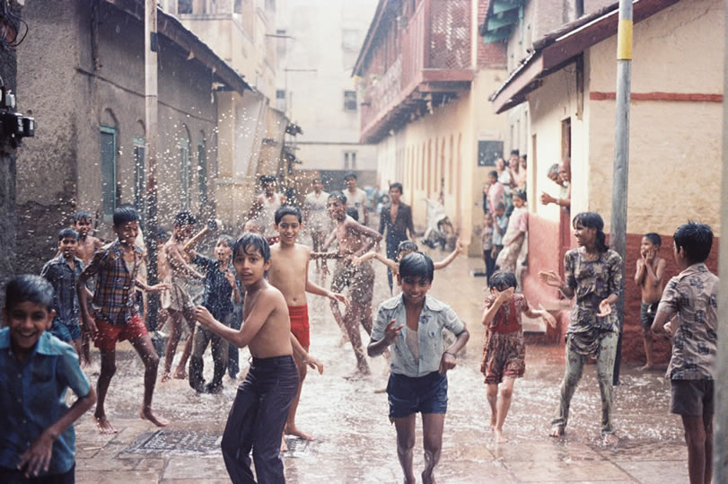 Photo of children playing streets of Ahmednagar, India by Win Coates.